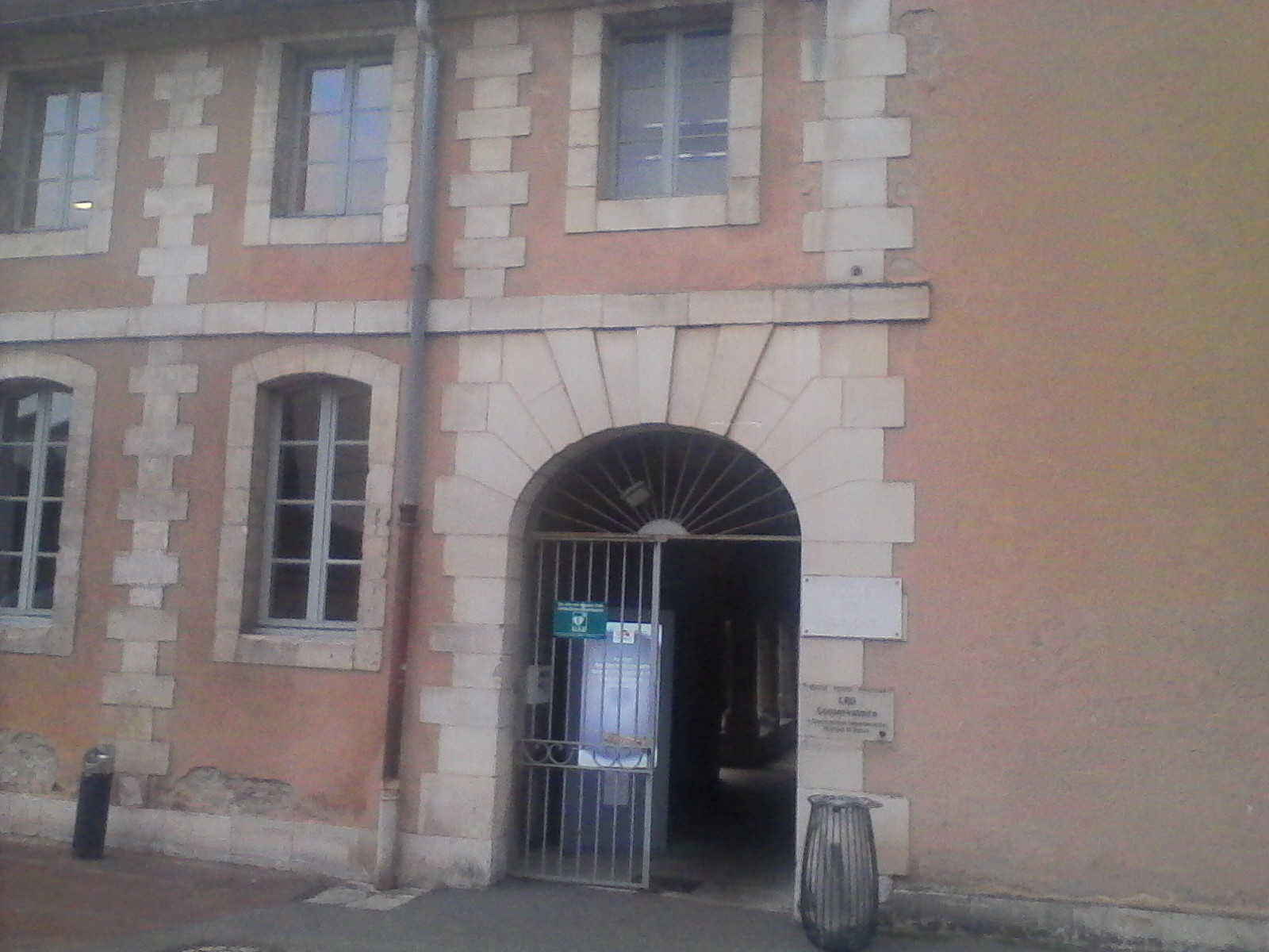 Il s'agit d'un ancien monastere franciscain devenue à la fin XX e siècle l'école de musique